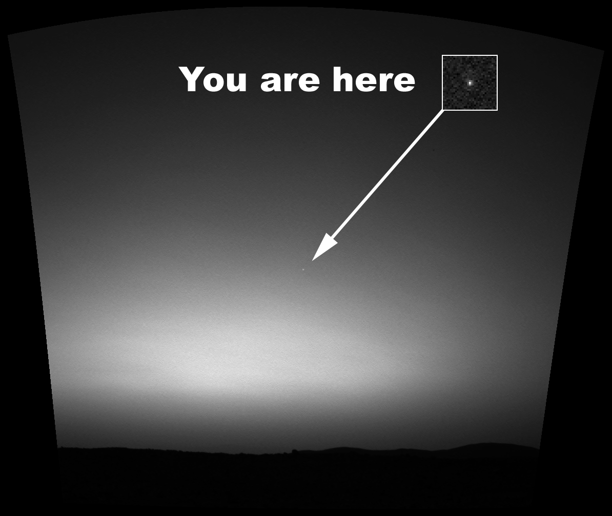 Earth as seen from Mars, shortly before daybreak. This is the first image of the Earth from the surface of another planet. Original Caption This is the first image ever taken of Earth from the surface of a planet beyond the Moon. It was taken by the Mars Exploration Rover Spirit one hour before sunrise on the 63rd martian day, or sol, of its mission. The image is a mosaic of images taken by the rover's navigation camera showing a broad view of the sky, and an image taken by the rover's panoramic camera of Earth. The contrast in the panoramic camera image was increased two times to make Earth easier to see. The inset shows a combination of four panoramic camera images zoomed in on Earth. The arrow points to Earth. Earth was too faint to be detected in images taken with the panoramic camera's color filters. Image Credit: NASA/JPL/Cornell/Texas A&M